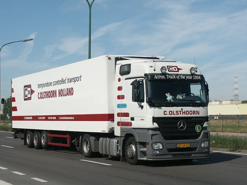 Mercedes-Benz Actros (2004 series), international truck of the year. My own photo.